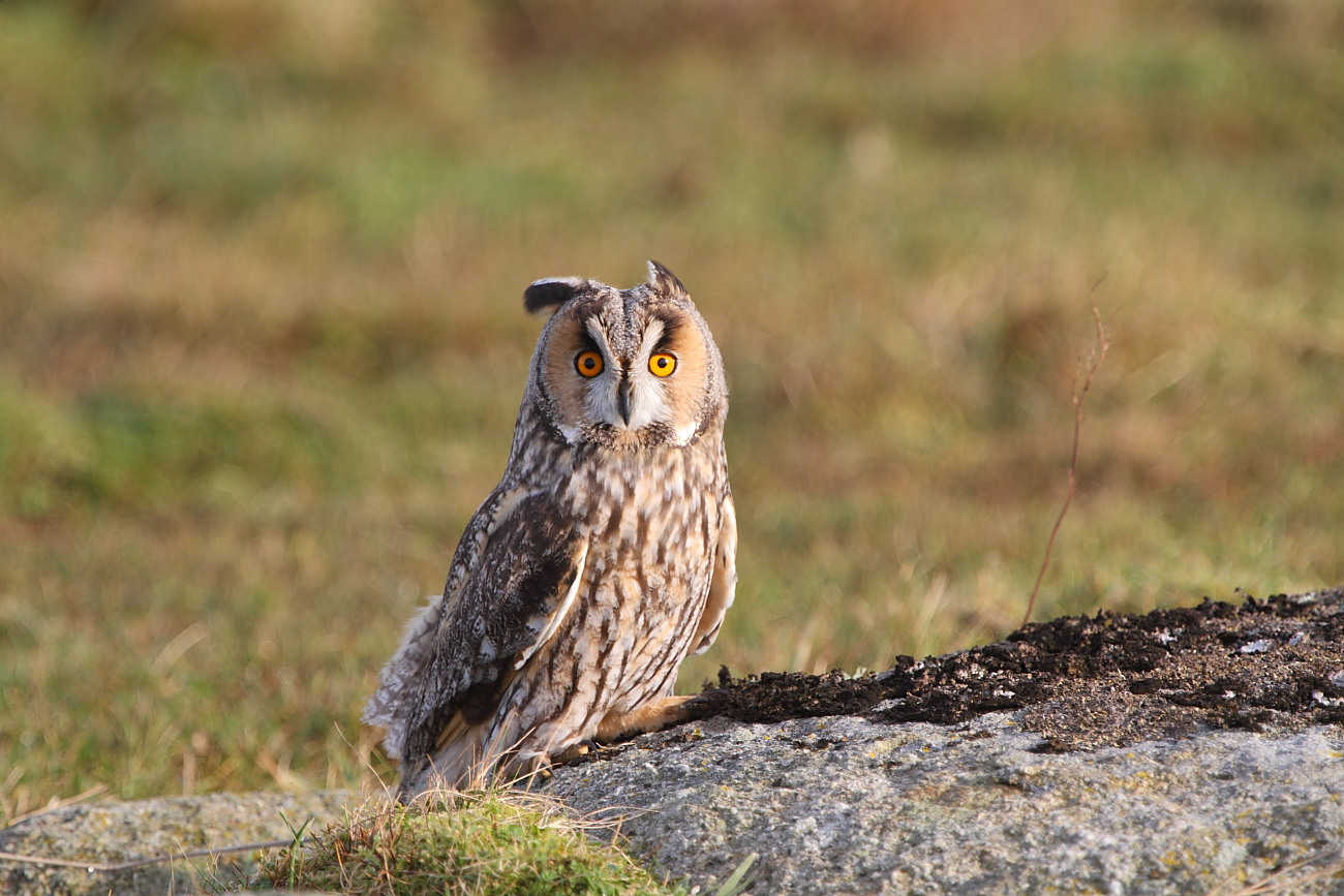 Long-eared Owl Asio otus, Lista, Norway